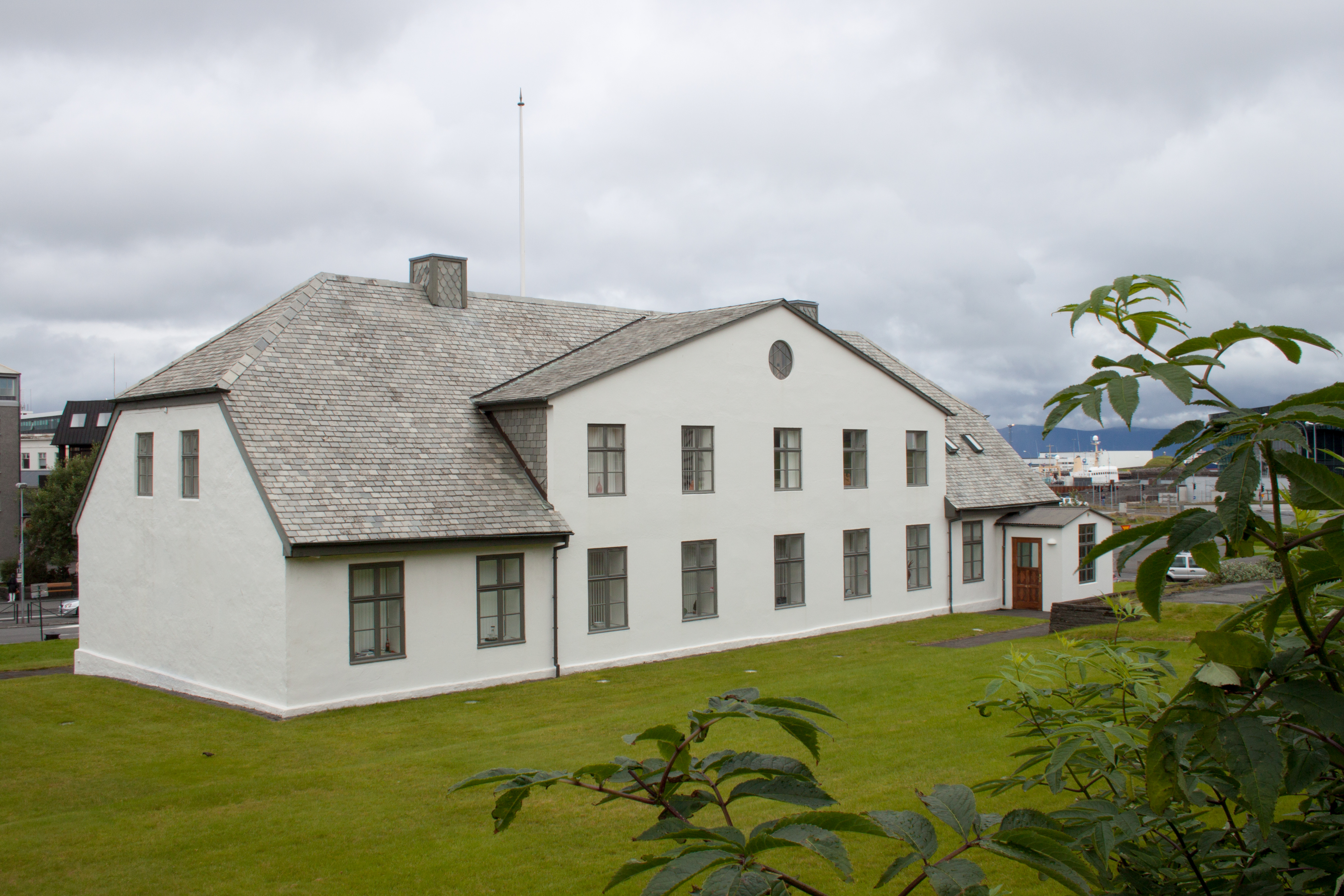 Cabinet building in Reykjavík